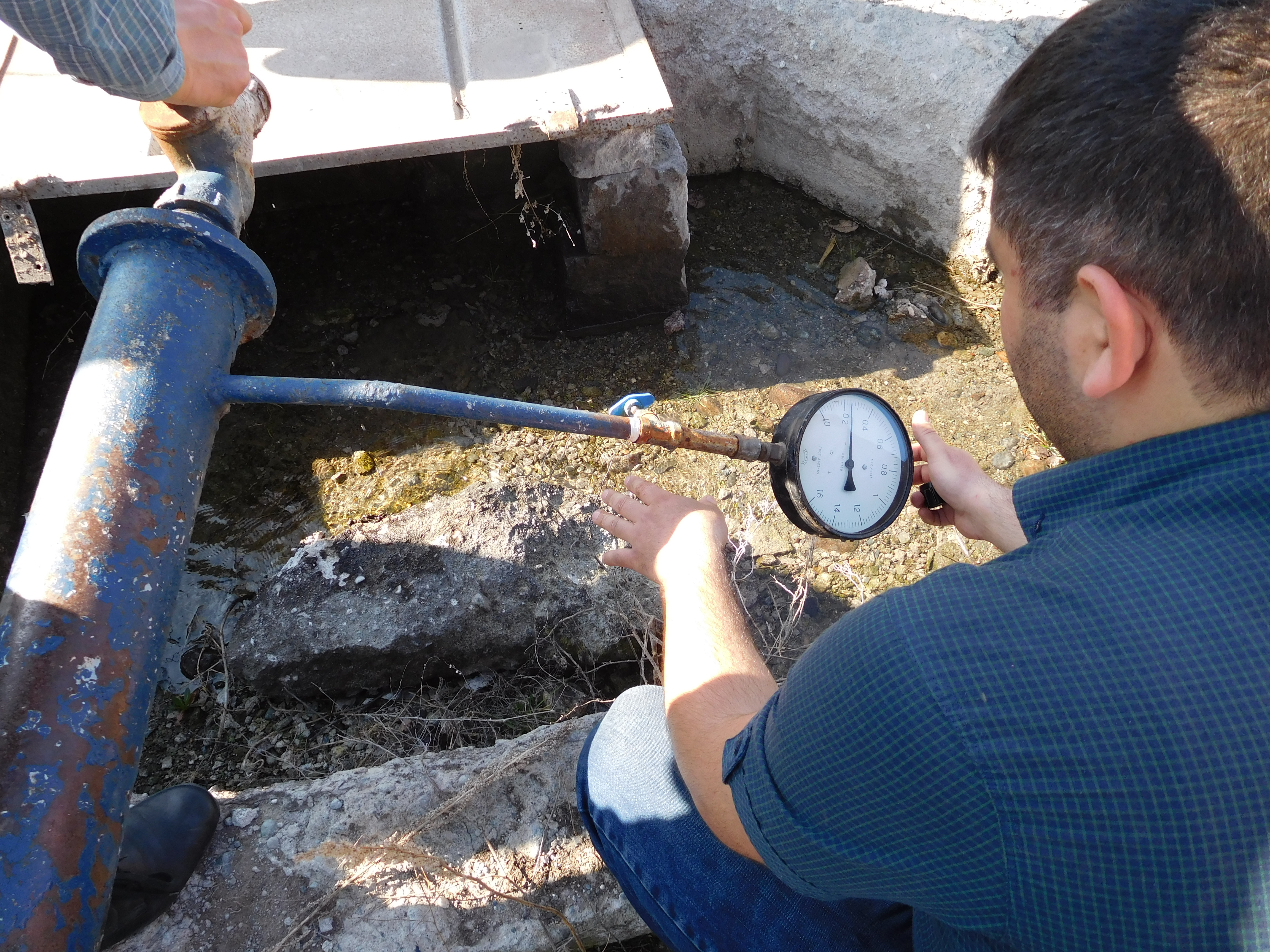 Field training on measuring the hydraulic head (water level) above land surface using a pressure gauge for a flowing well in Sis, Armenia. The well owner stated that the pressure and discharge have decreased markedly in the last few years.